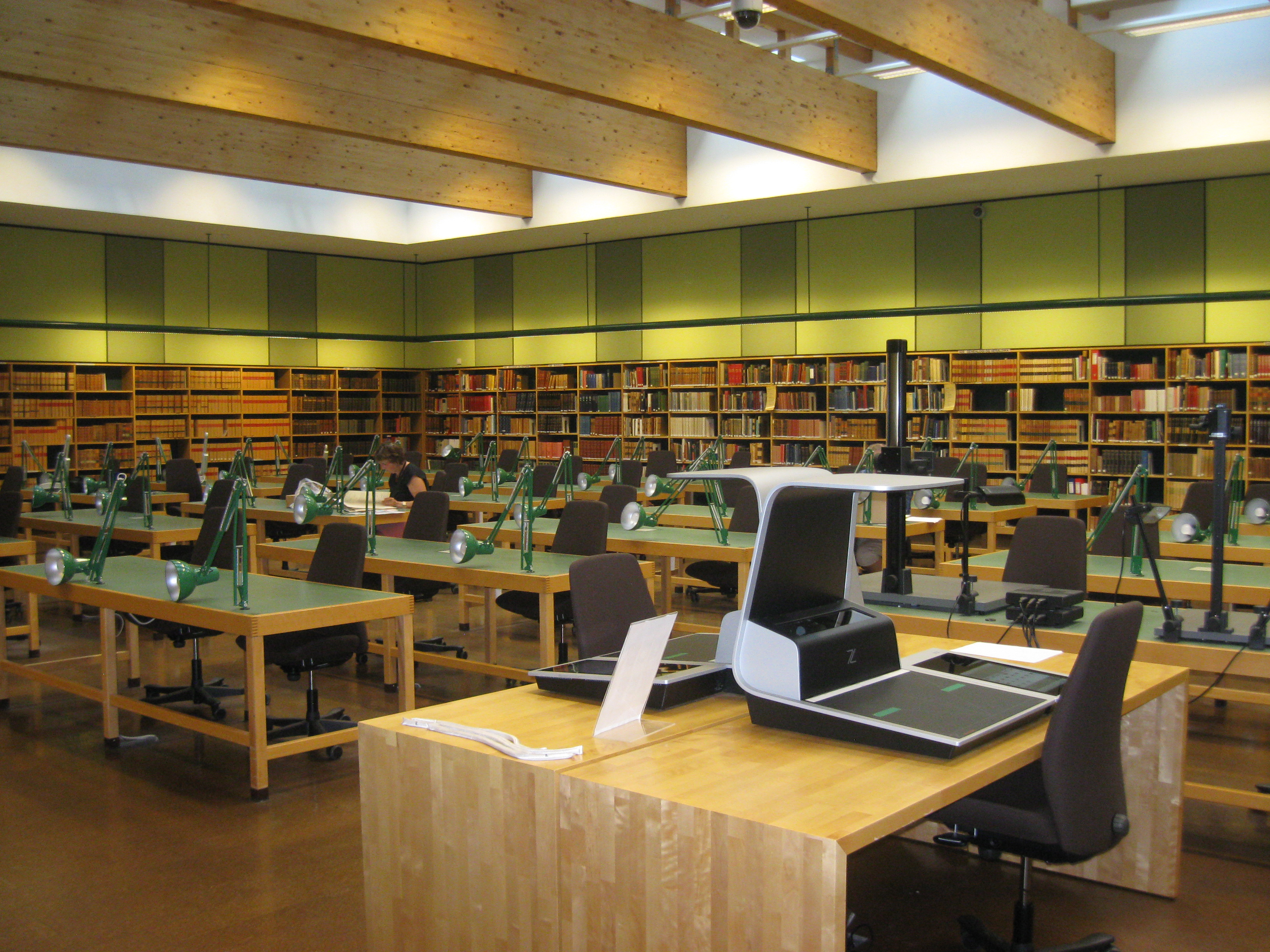 Reading hall of the Norwegian National Archive